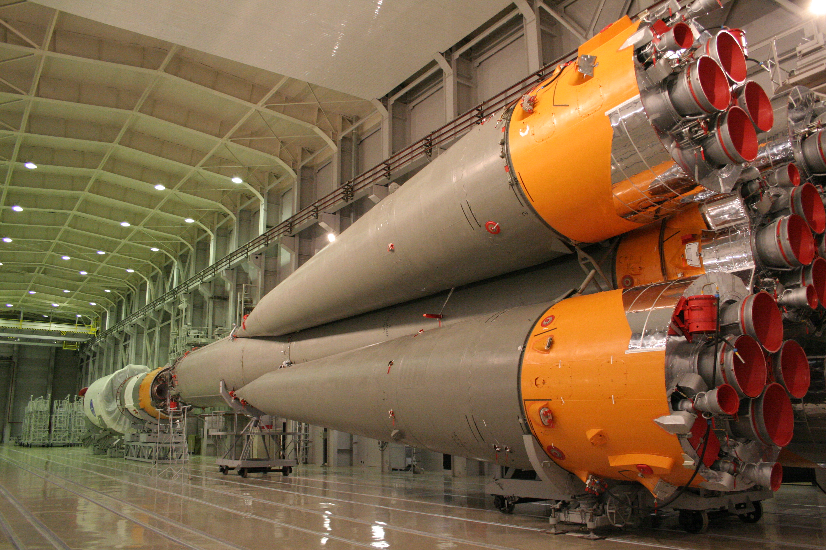 Soyuz-FG in the assembly in Baikonur. Visible, from the right: Core stage with four boosters, detached 2nd stage and the payload fairing with a satellite and third stage.